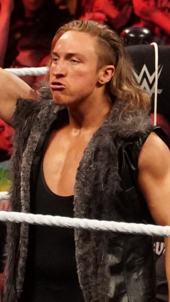 Pete Dunne, the WWE/NXT United Kingdom champion prior to his match at NXT TakeOver: New Orleans in April 2018.